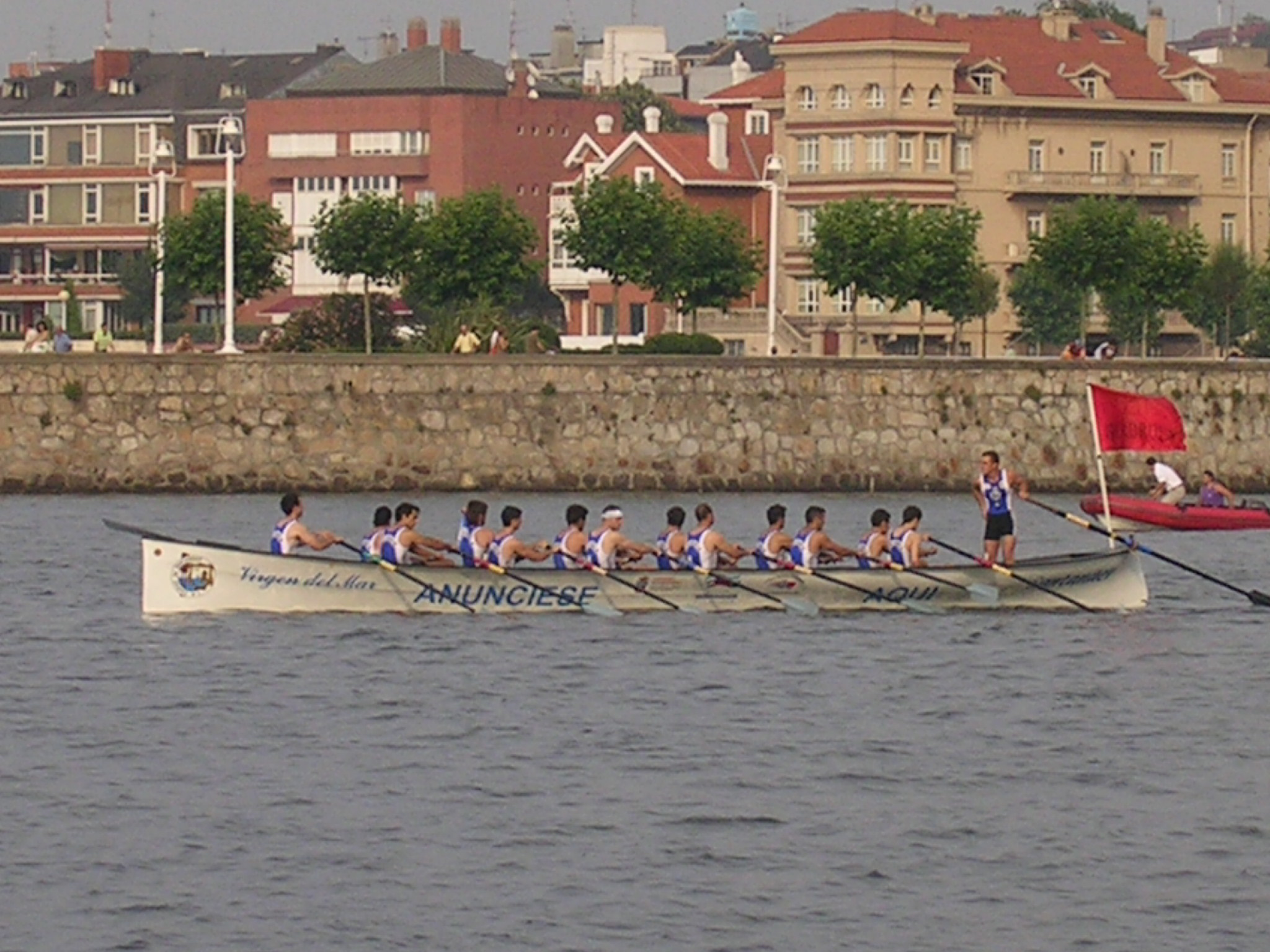 Departure of the City of Santander Rowing Club in the Santurce Regatta 2006